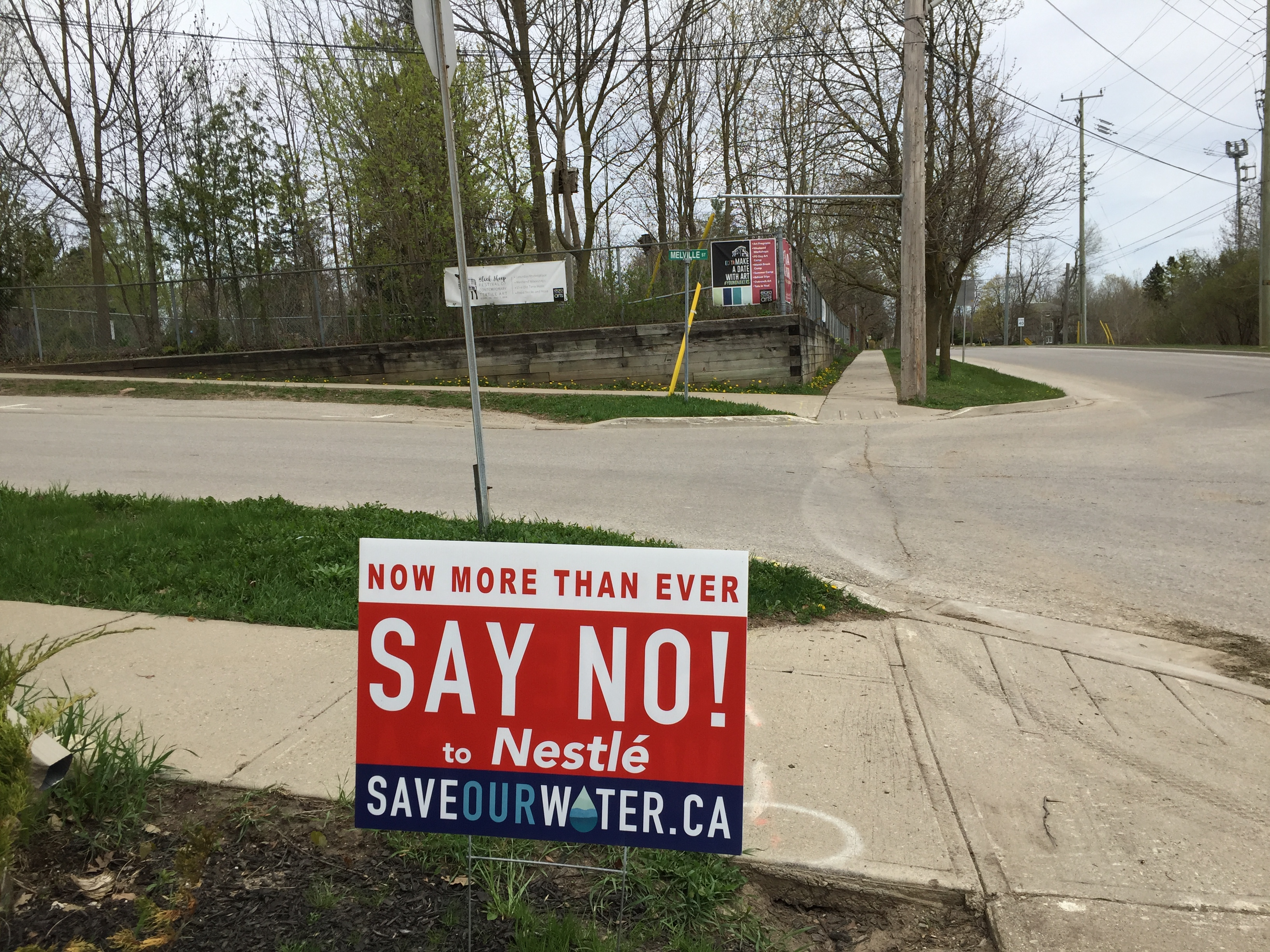 Sign against Water abstraction in Elora, Ontario, Canada. May 2018